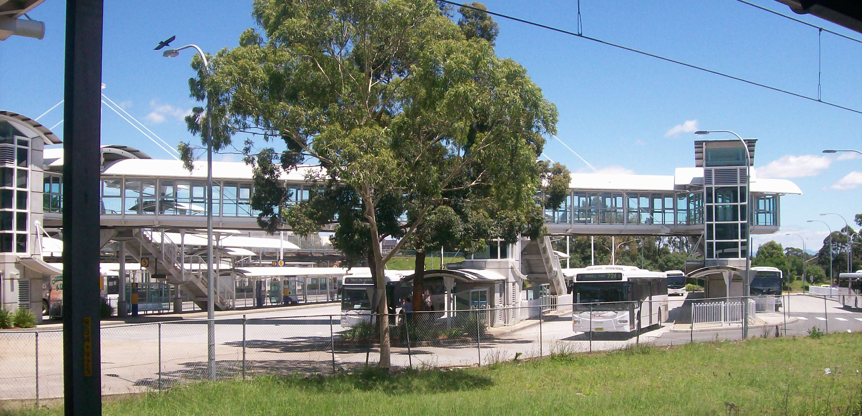 Blacktown railway station bus interchange area